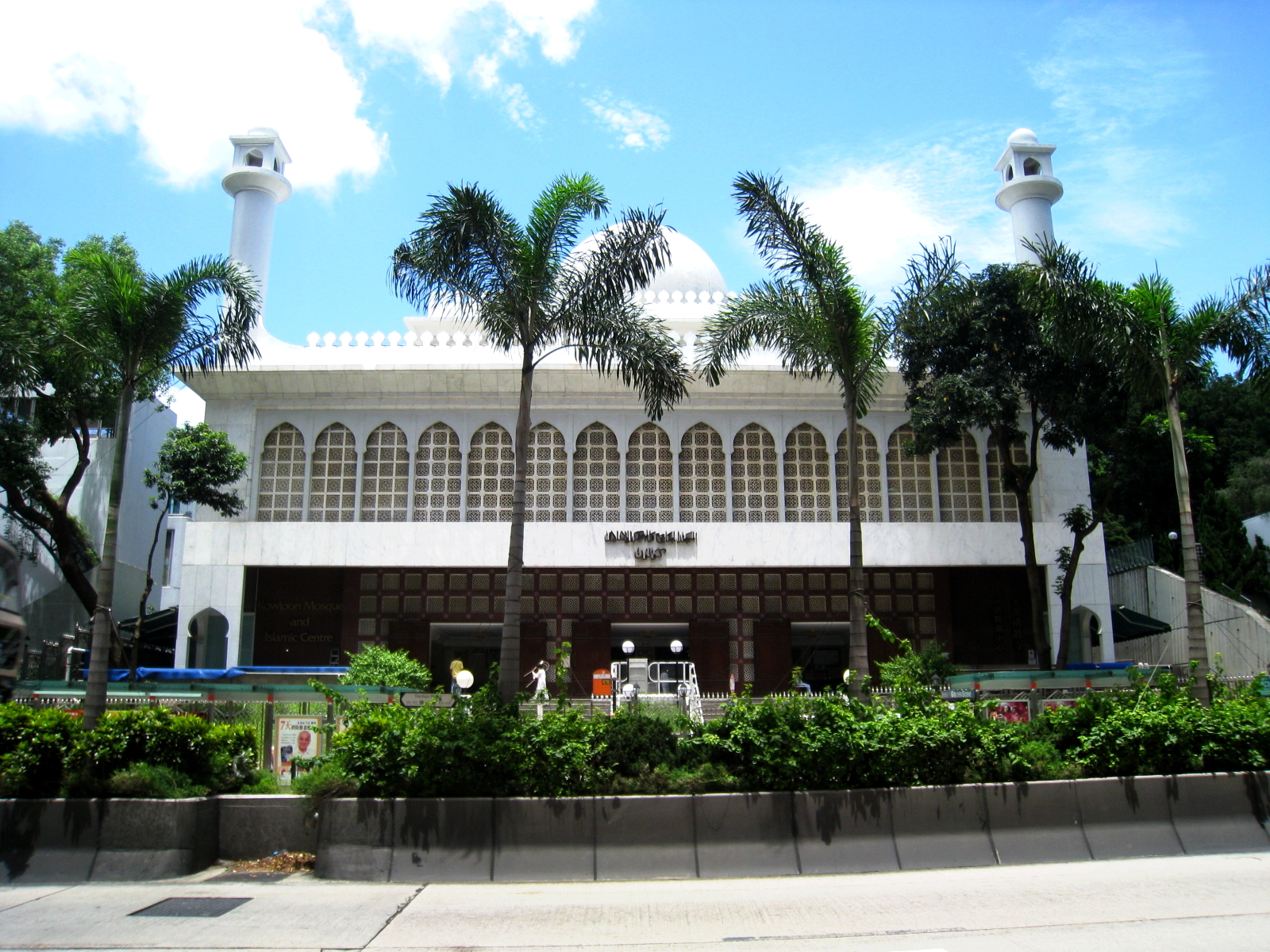 HK Kowloon Masjid and Islamic Centre 九龍清真寺